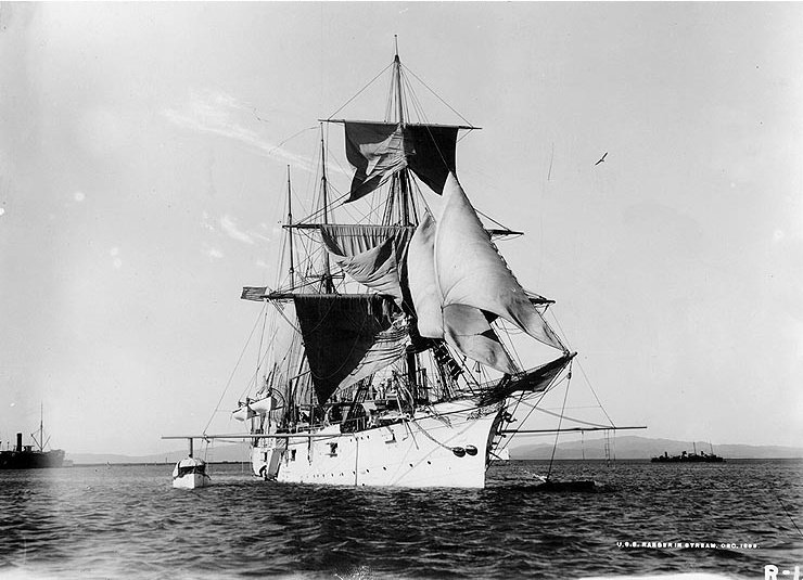 USS Ranger (1876), drying sails while moored off the Mare Island Navy Yard, California, in December 1899. Torpedo boats in the right distance are USS Davis (Torpedo Boat # 12) and USS Fox (Torpedo Boat # 13).